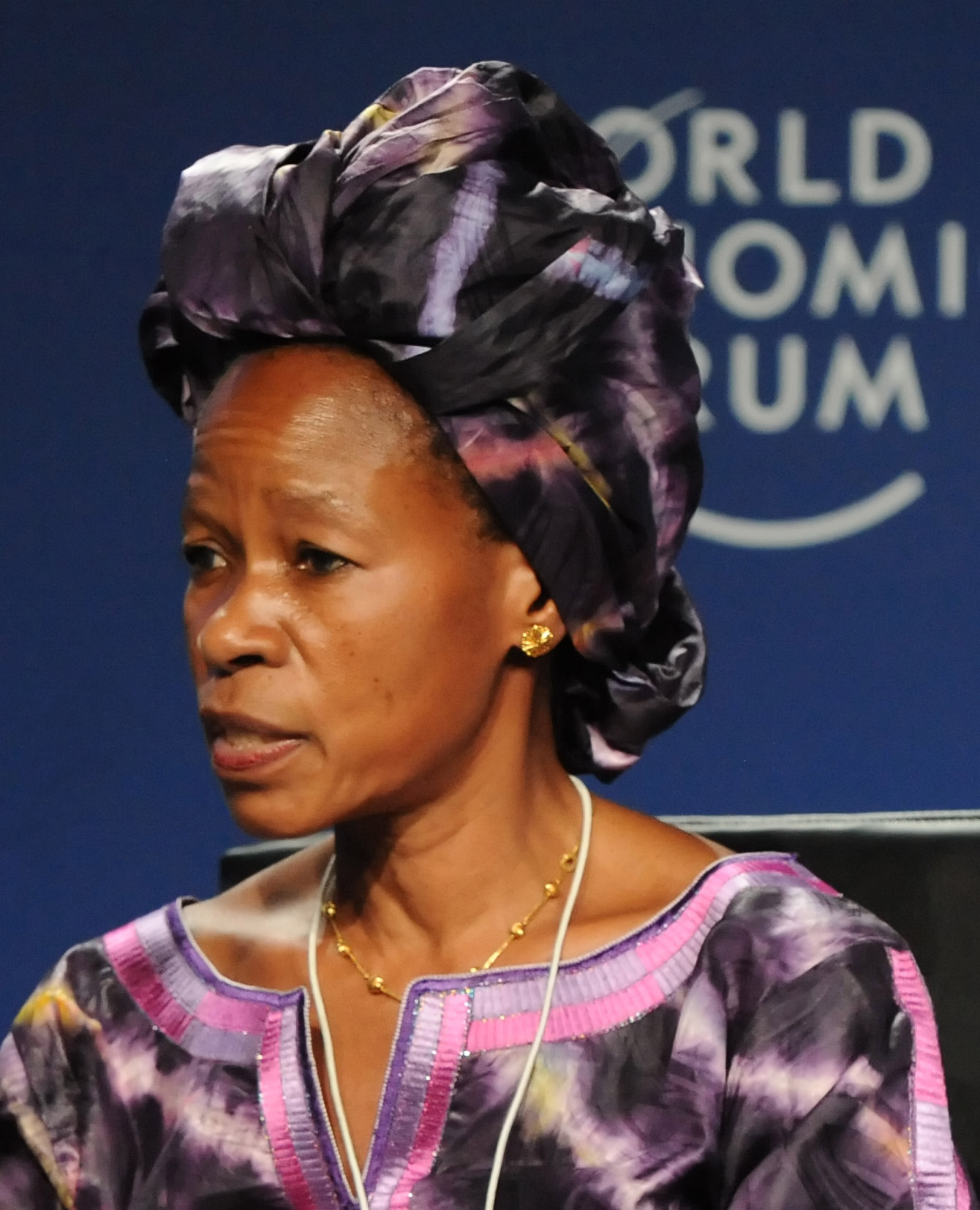 Anna Tibaijuka (Undersecretary-General and Executive Director, UN-HABITAT, headquarters in Kenya) at the World Economic Forum on Africa 2010 held in Dar es Salaam, Tanzania, May 7, 2010